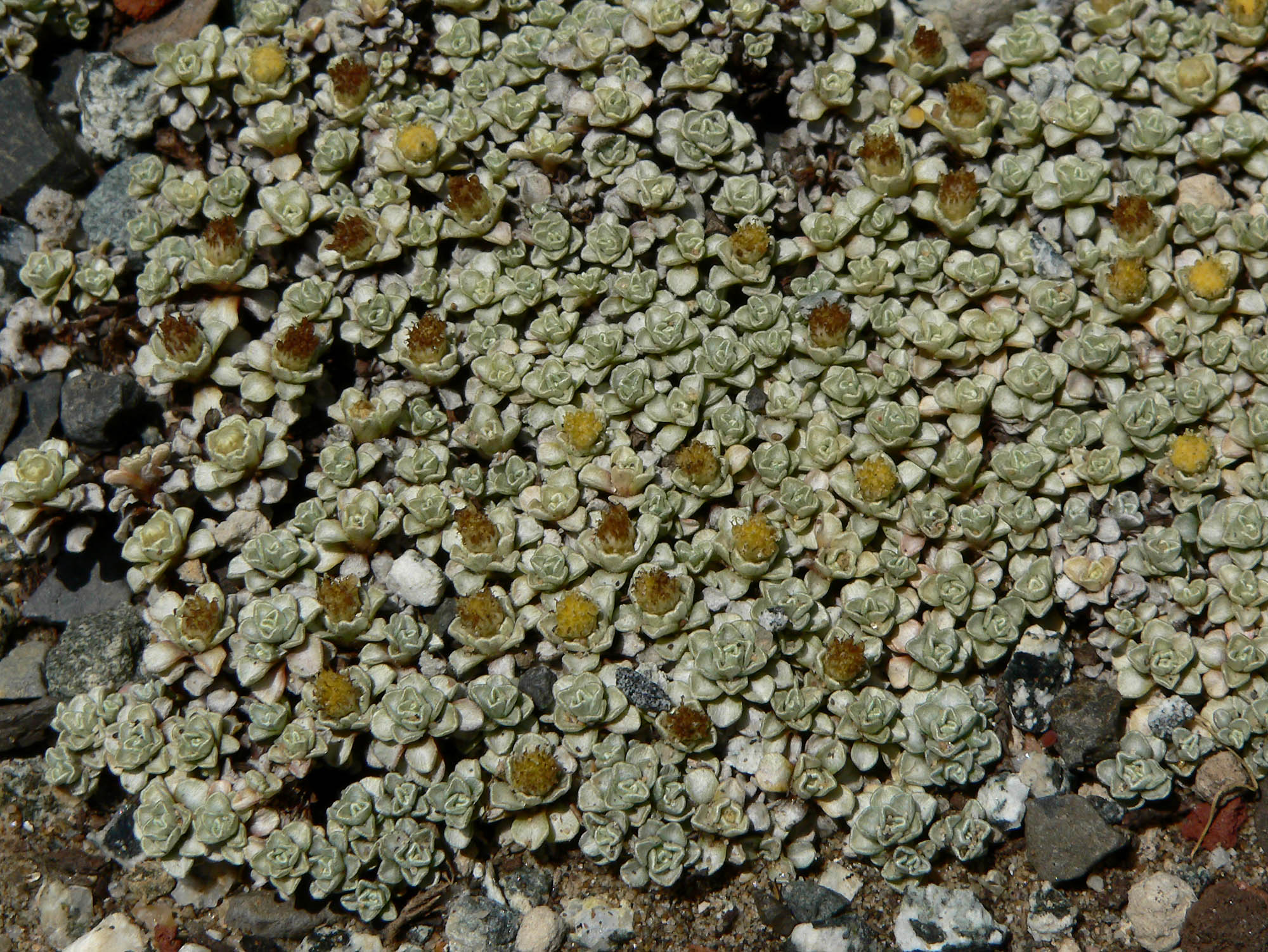 Photo of Raoulia hookeri at the San Francisco Botanical Garden